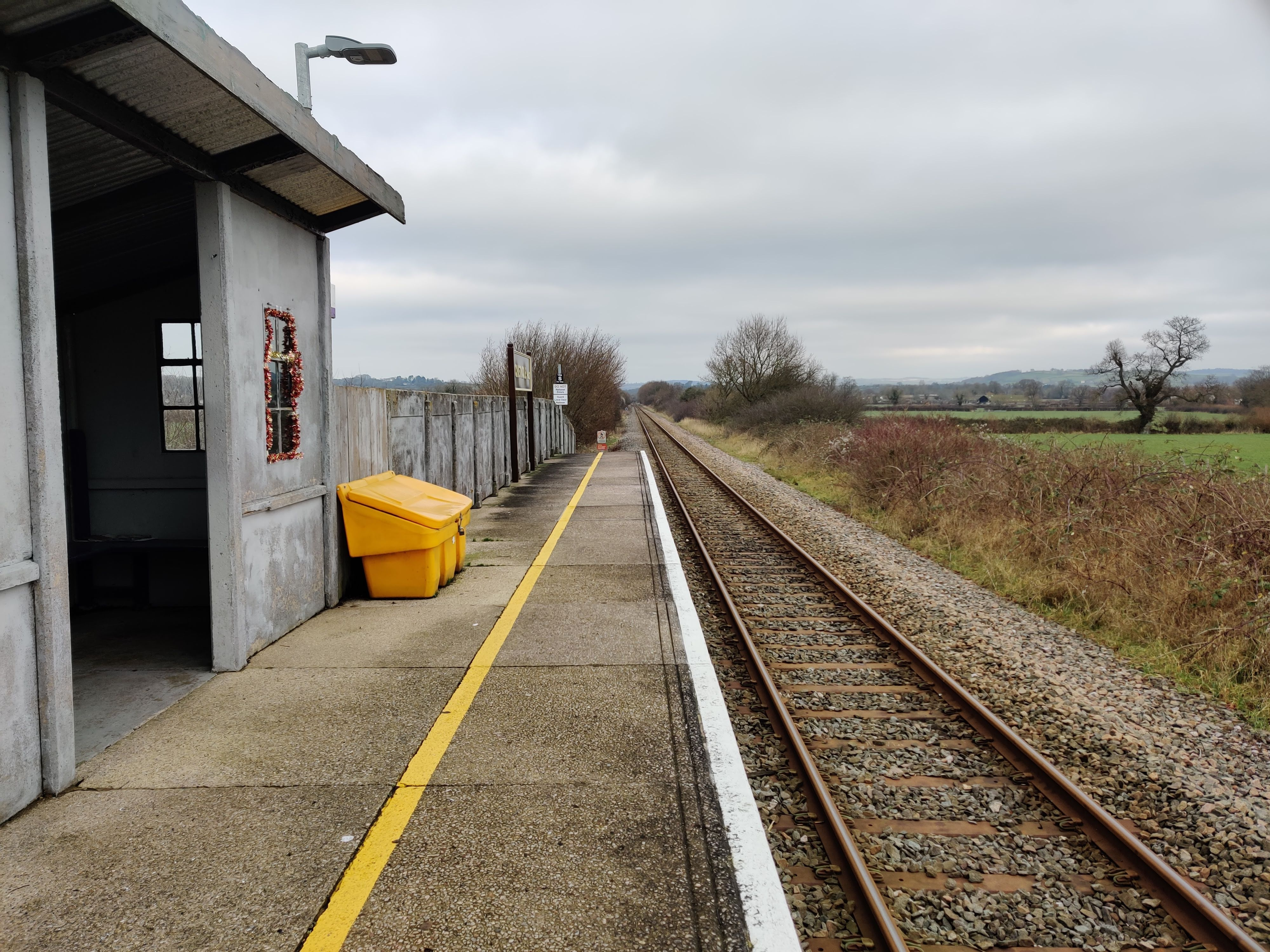 Train, Station, Platform, Track, Countryside